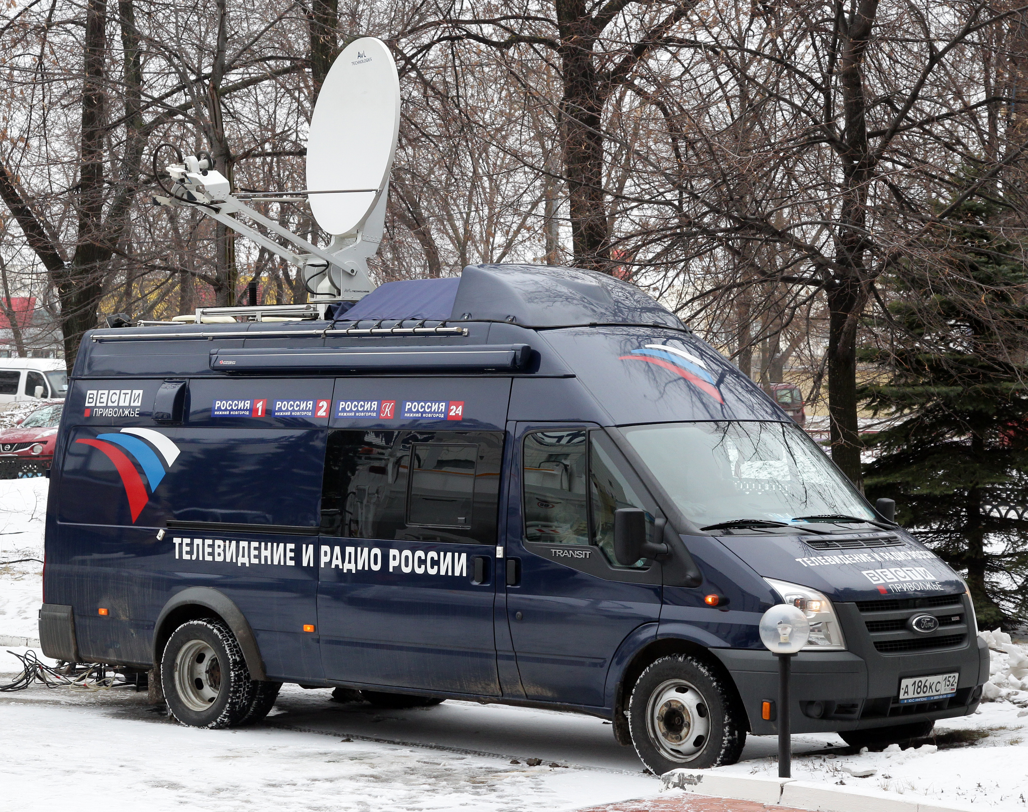 Outside broadcasting van of 'Vesti' Russian TV-station